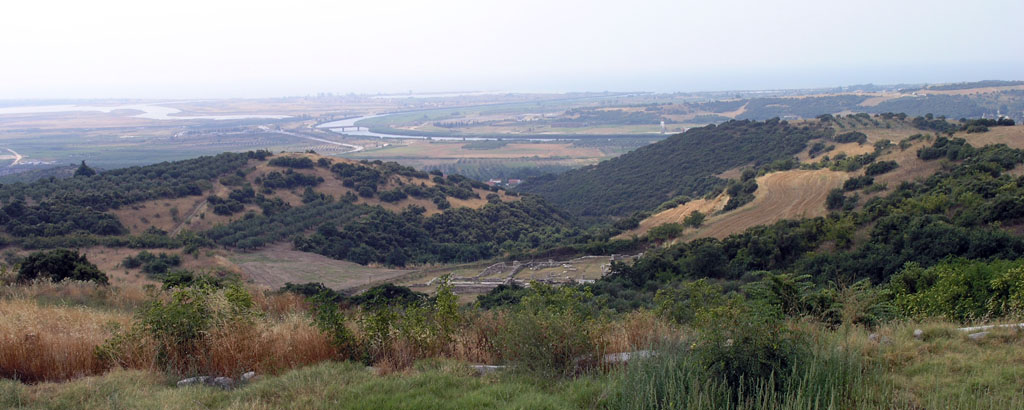 View from the acropolis of Amphipolis toward the South : the gymnasium's remains in the foreground, the Strymon and its delta in the background. Photograph taken by Marsyas on 06/16/2002.